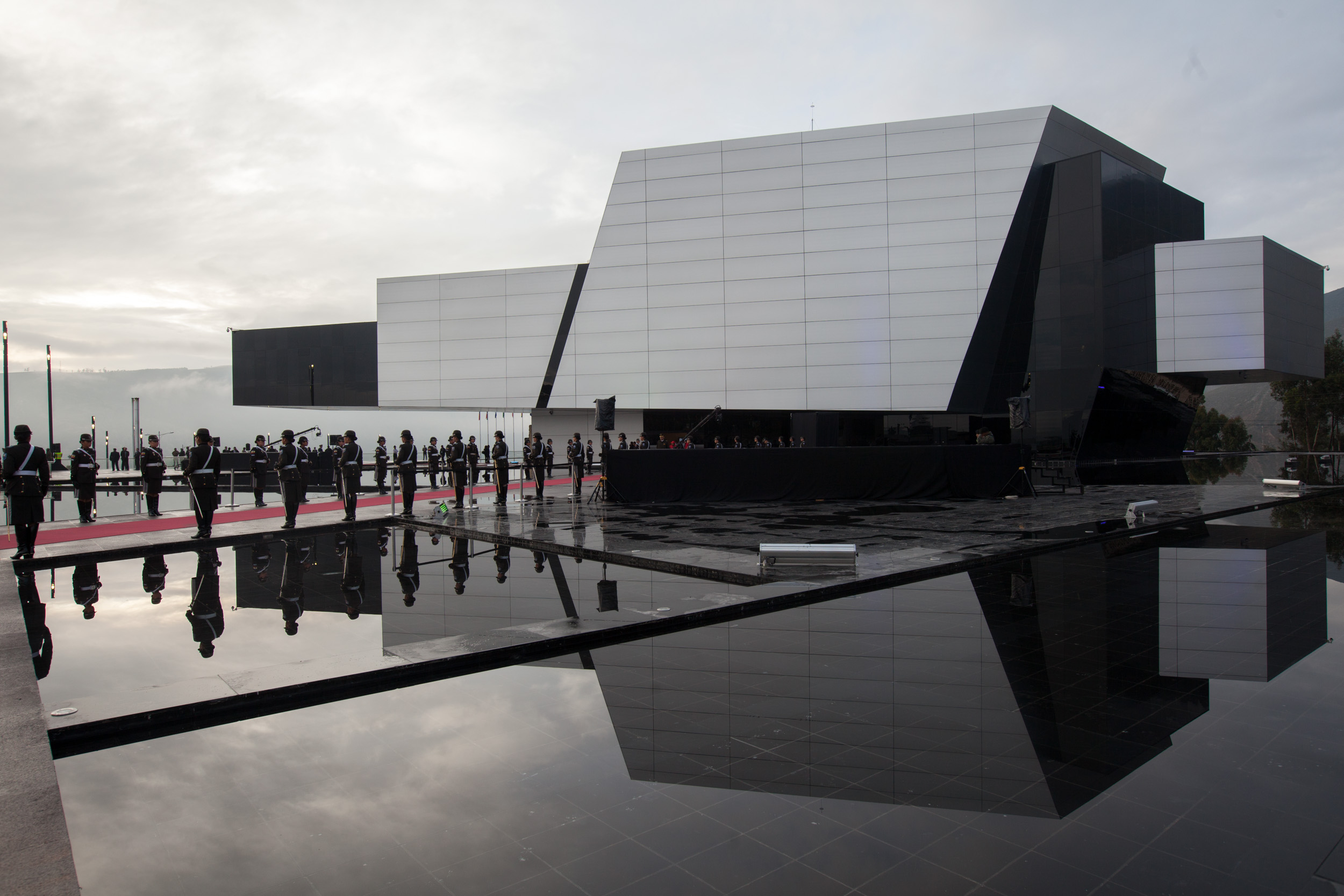 Headquarters of UNASUR, Quito